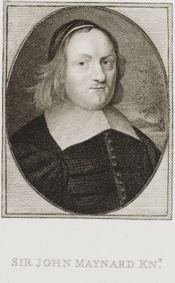 Sir John Maynard (1602-1690)